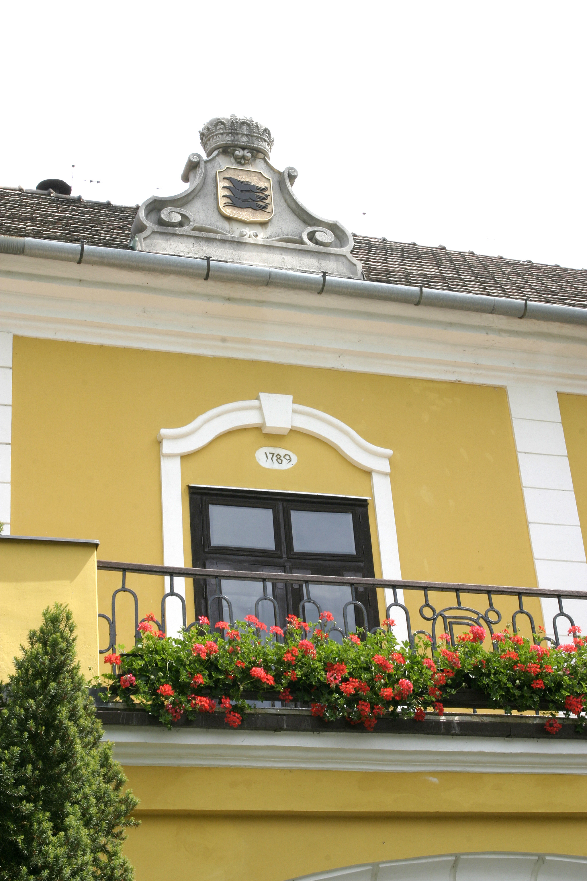 Building with year of creation at the park area of the national stud at Bábolna/Hungary